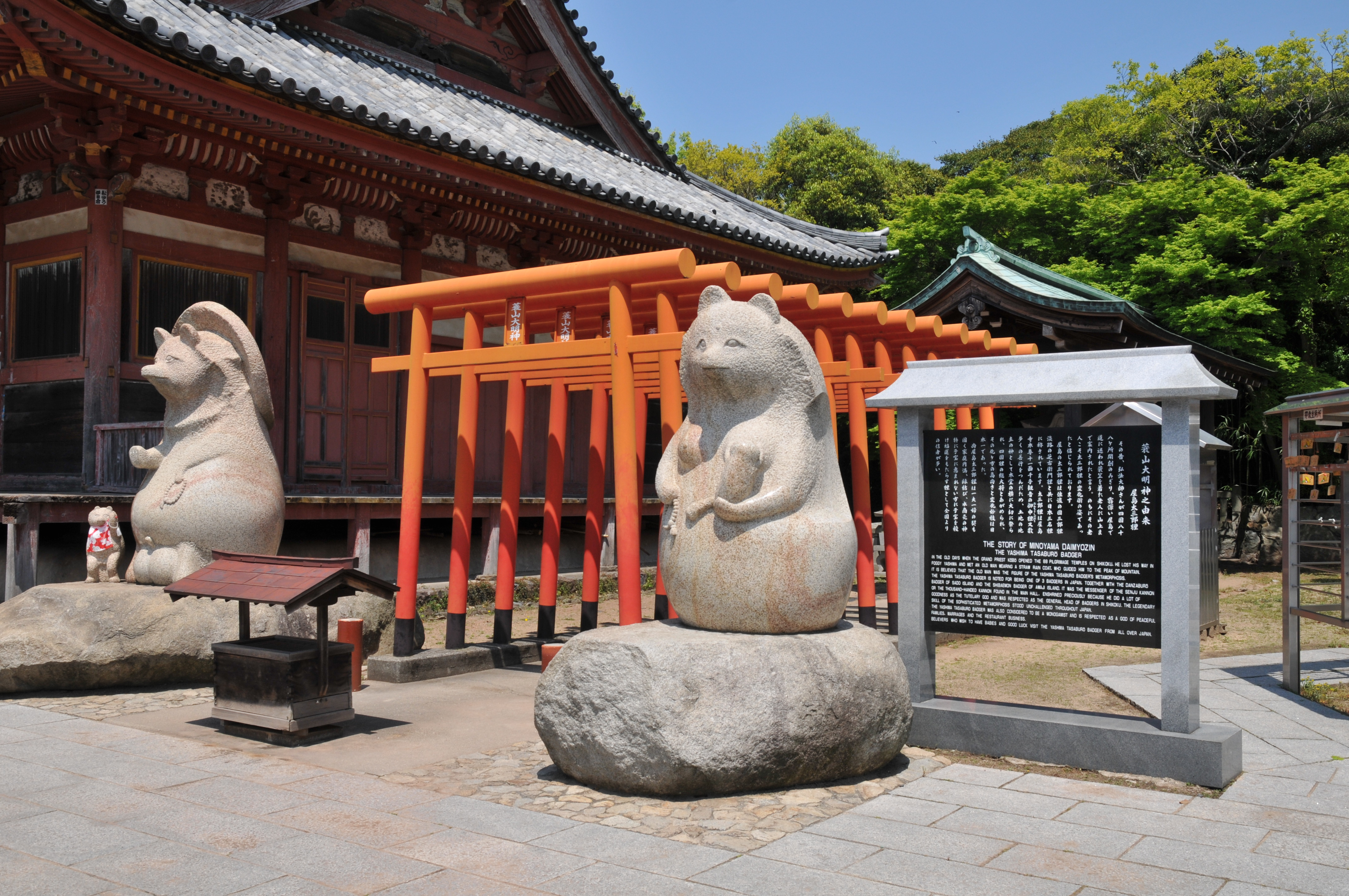 Minoyama-daimyojin Shinto shrine in Yashima-ji